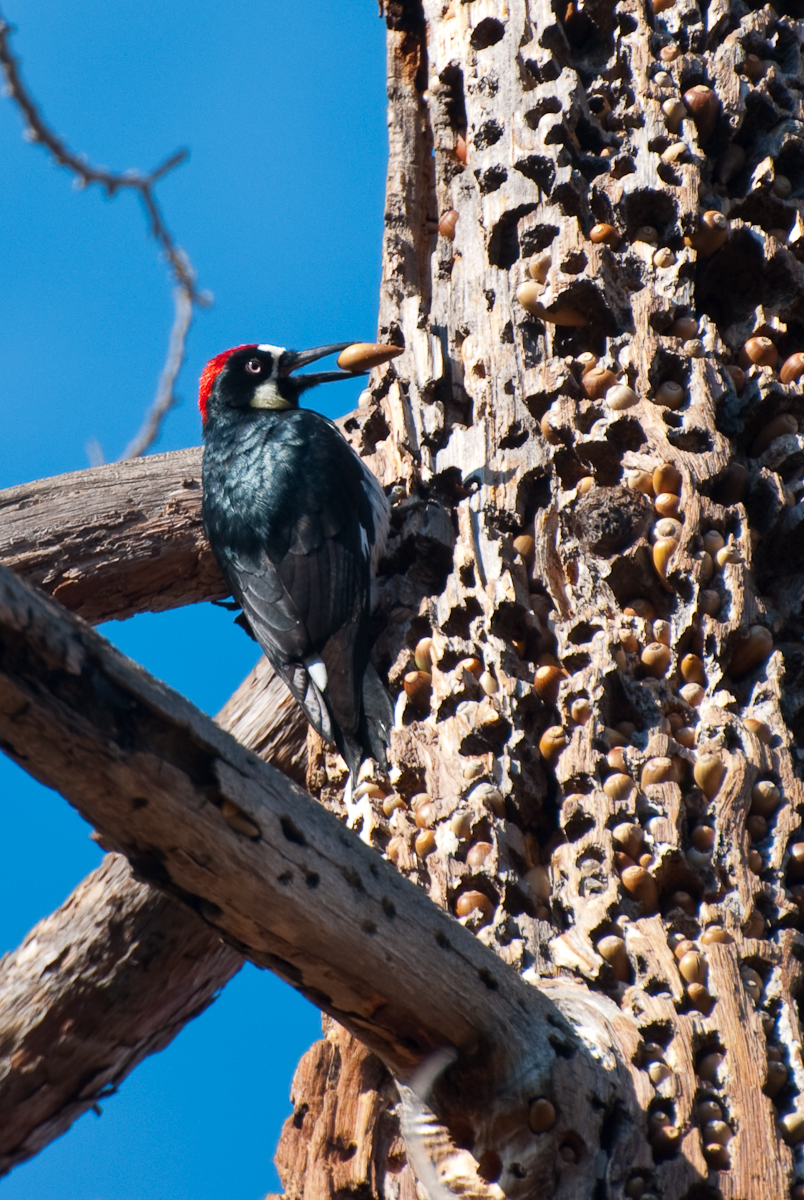 A male acorn woodpecker clinging to a tree full of hoarded acorns. This "granary building" is a distinctive feature of the Acorn Woodpecker species, with breeding pairs or larger communities collectively managing acorn hoards.